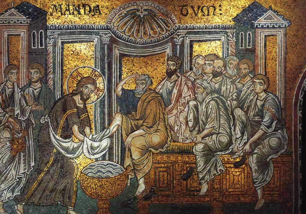 Christ washes apostles' feet (Monreale)